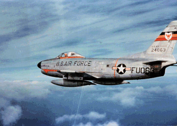 F-86D Serial 52-4063 of the 513th Fighter Interceptor Squadron - Phalsbourg-Bourscheid Air Base France - 1958 Source: United States Air Force Historical Research Agency - Maxwell AFB, Alabama